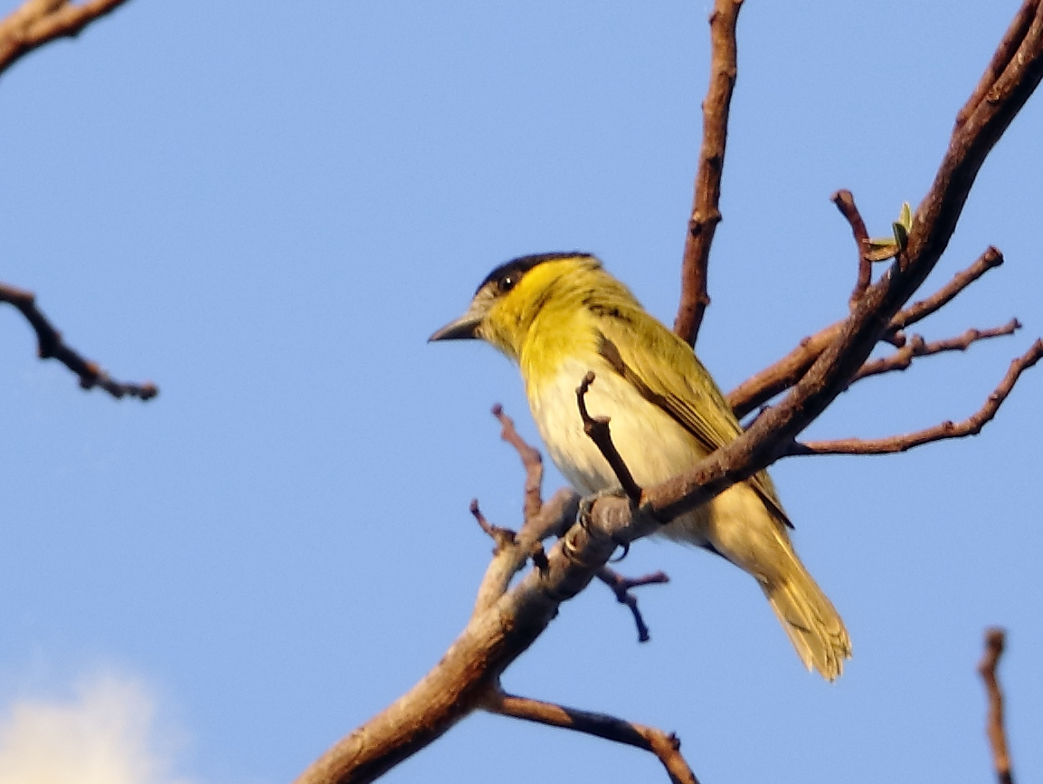 Yellow-cheeked becard; Rio Branco, Acre, Brazil